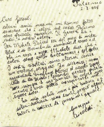 Letter by Count Airoldi to Joseph Whitaker, where the colour change for Italy football club Palermo to pink and black are suggested. As stated on the letter itself, it was written on 2 February 1905. Text of the letter (English translation follows): Palermo 2-2-905 Caro Giosué, alcuni amici marinai mi hanno fatto osservare che i colori del vostro Palermo sono sfruttati parecchio. Il Genova ha i vostri, i nostri colori. Ieri Michele Pojero era del parere di mister Blak (sic) e di Norman di cambiare il rosso e il blu in rosa e nero. Michele dice che i colori sono quelli dell'amaro e del dolce. I vostri risultati sono alterni come un orologio svizzero. In avvenire, come raccontava Vincenzo Florio al circolo Sport Club di La Stabile, quando perdete potete bere sempre il suo amaro di colore nero mentre il rosa potete assaporarlo nel liquore dolce. La mia salute non è più buona e i dolori-vecchiaia sono tanti, perciò affrettatevi a battere le prossime squadre. (Dear Giosué, some sailors friends of mine made me notice that your Palermo colours are very utilized. Genoa has your, our colours. Yesterday Michele Pojero agreed with Mr Blak (sic) and Norman to change red and blue to pink and black. Michele says they are colours of bitter and sweet. Your results are as alternate as a Swiss clock. In the future, as Vincenzo Florio said at the La Stabile's Sport Club, when you lose you can always drink his coloured-black bitters, while you can taste the pink in the sweet liqueur. My health is not good anymore and I have many old age pains, so hurry up in beating the next teams.) Giuseppe Airoldi